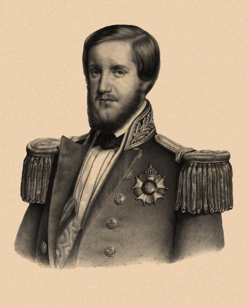 D. Pedro II of Brazil.